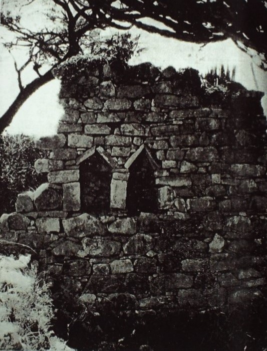 Old Amud